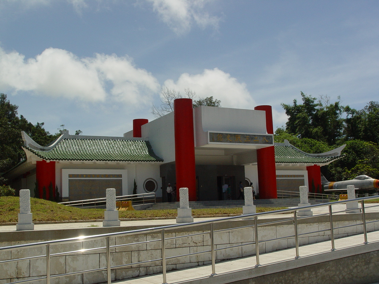 August 23 Artillery Battle Museum, Jinhu Township, Kinmen County, Fujian Province, Republic of China